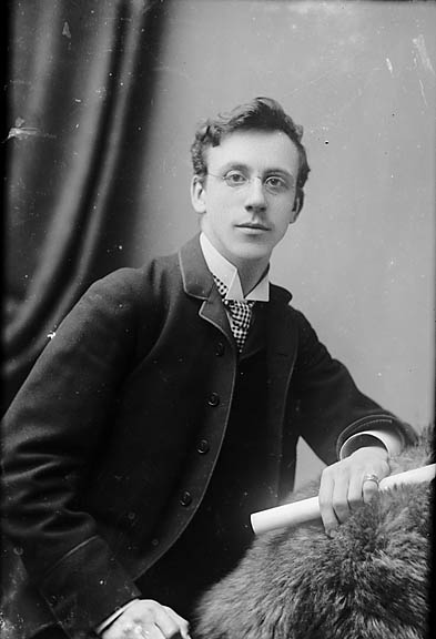 1 negative : glass, dry plate, b&w ; 11 x 8 cm.